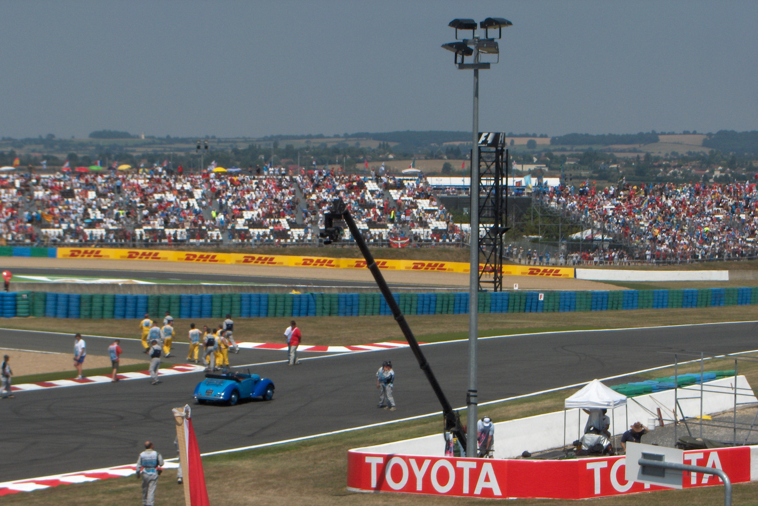 Camera crane being prepared on the circuit de Nevers Magny-Cours, before the 2006 Formula One Grand Prix.